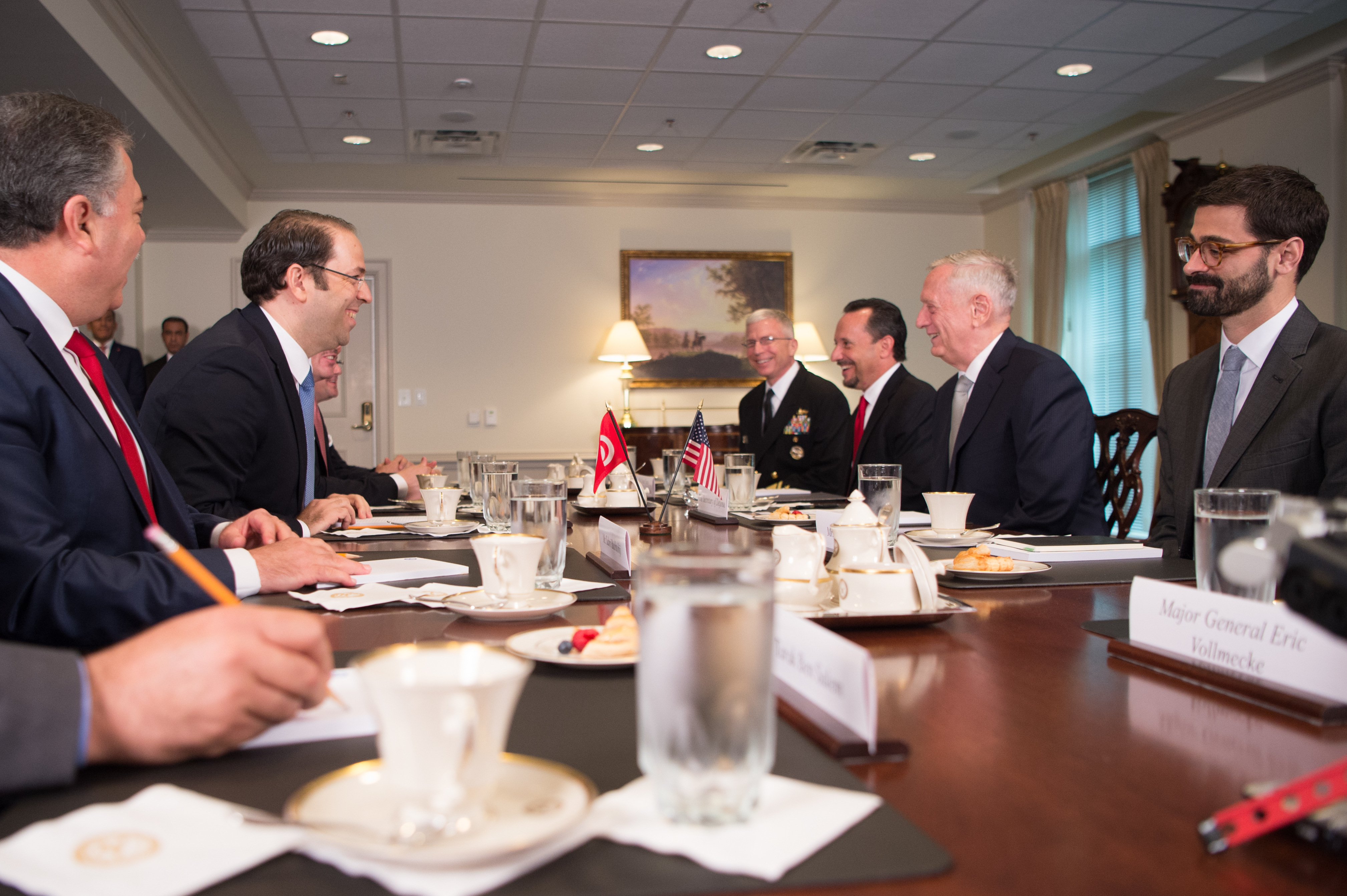 Defense Secretary Jim Mattis speaks with the Prime Minister of Tunisia Youssef Chahed during a meeting at the Pentagon in Washington, D.C., July 10, 2017. (DOD photo by U.S. Army Sgt. Amber I. Smith)